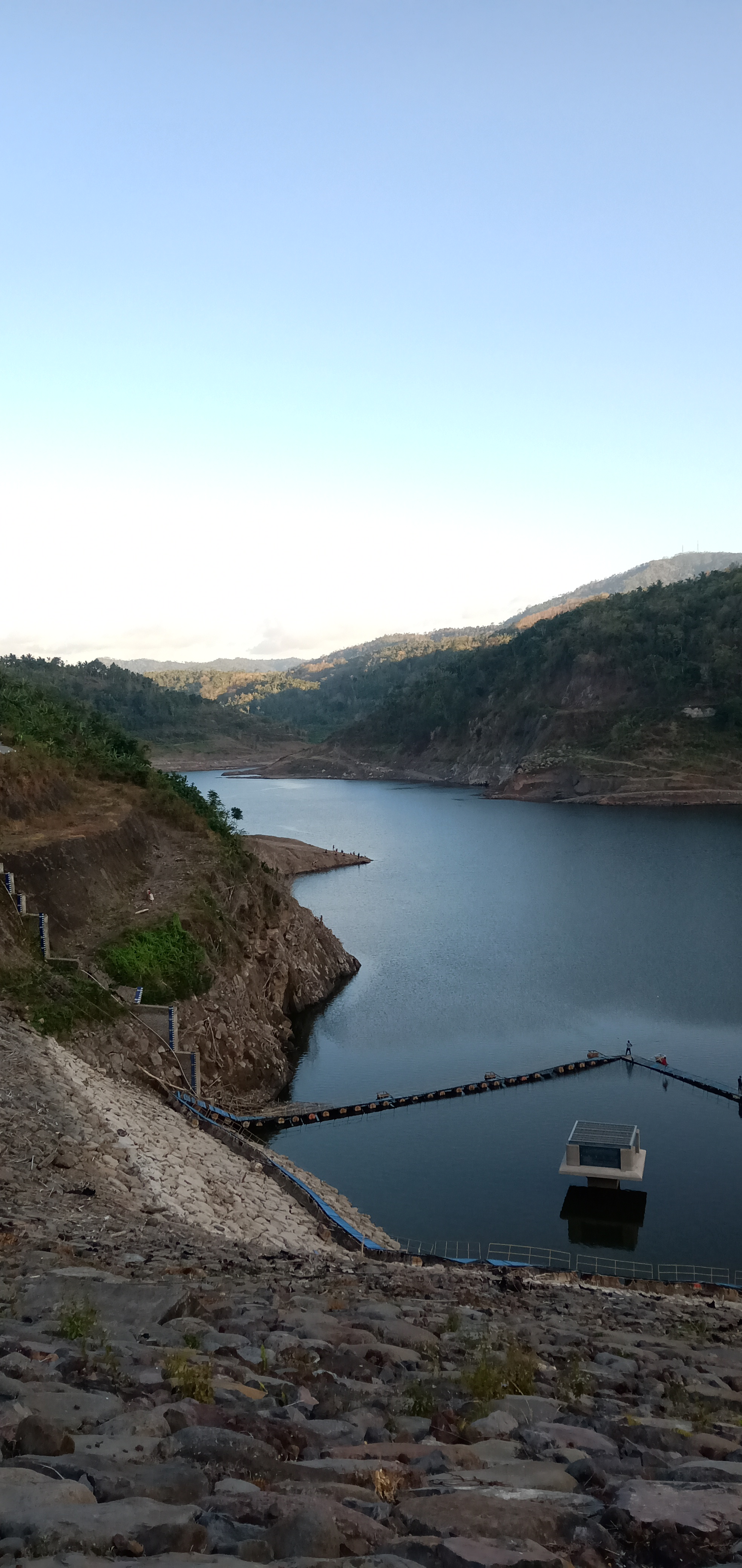 Ularan dam, Bali